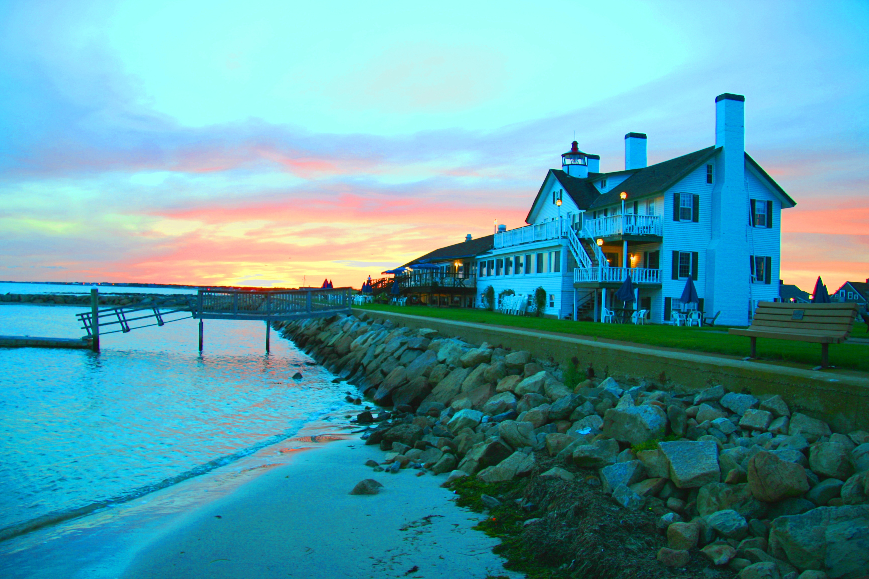 This is a view of the Lighthouse Inn